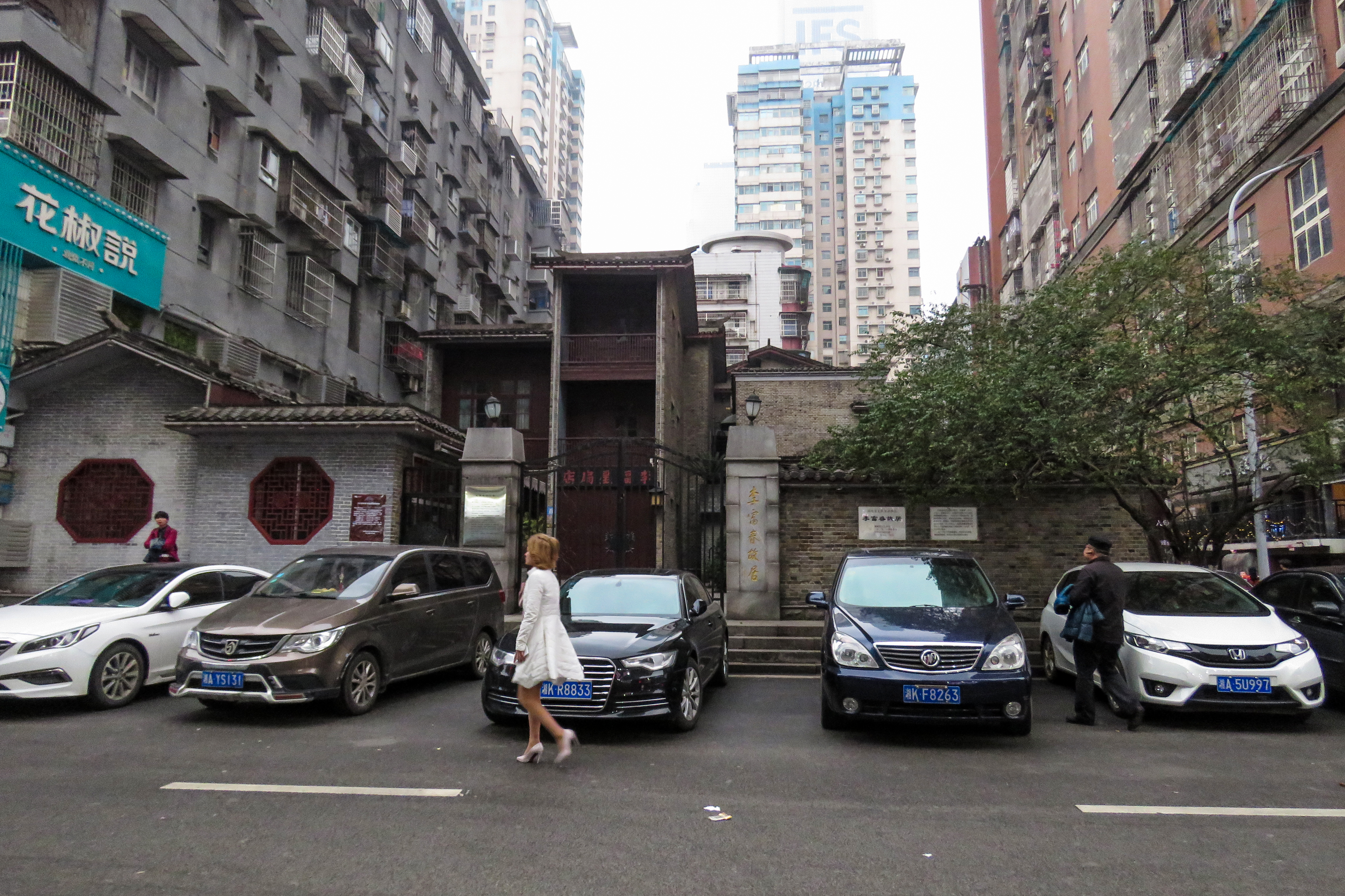 Taken en route to Huogongdian. Li Fuchun was born at this "Lifuxing Fan Store", but the original site was destroyed in Wenxi Fire in 1938.